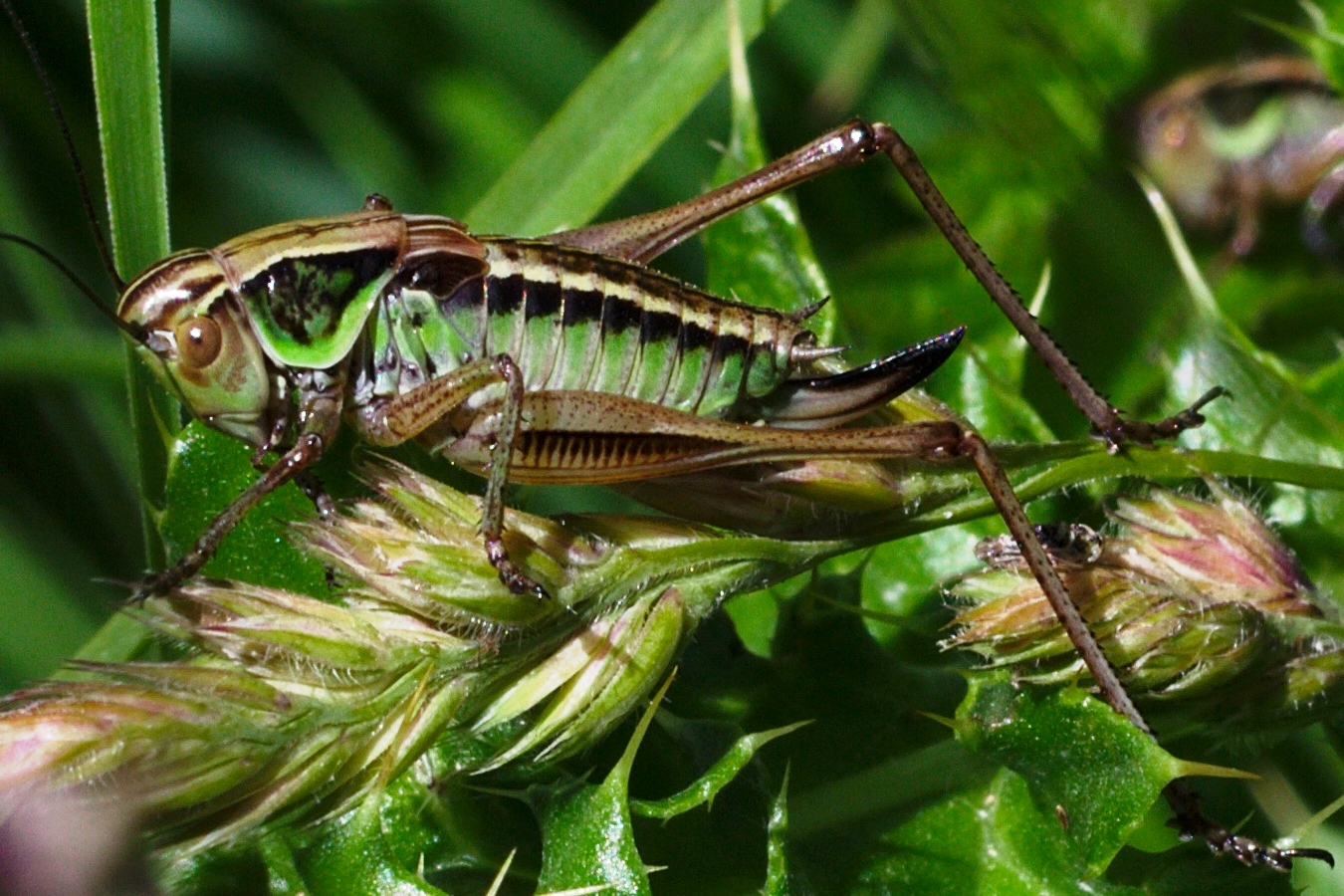 Roesel's bush-cricket Roeseliana roeselii in Morsan (Eure, France).